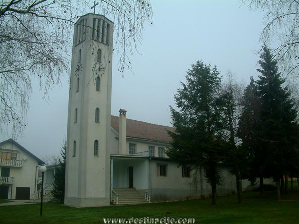 Church of Christ in Resetari